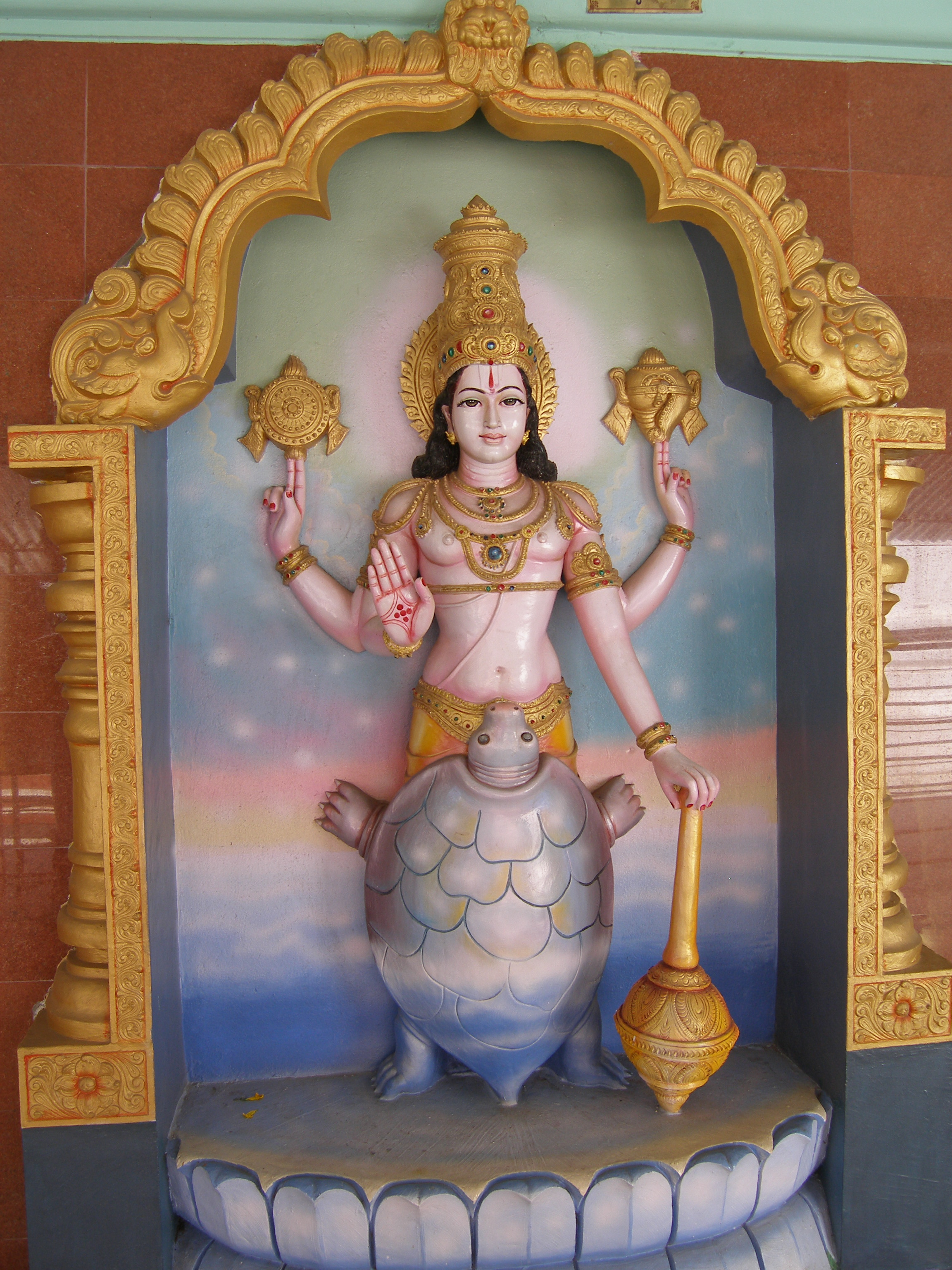 Kurmavatara of Lord Vishnu at Narayana Tirumala.